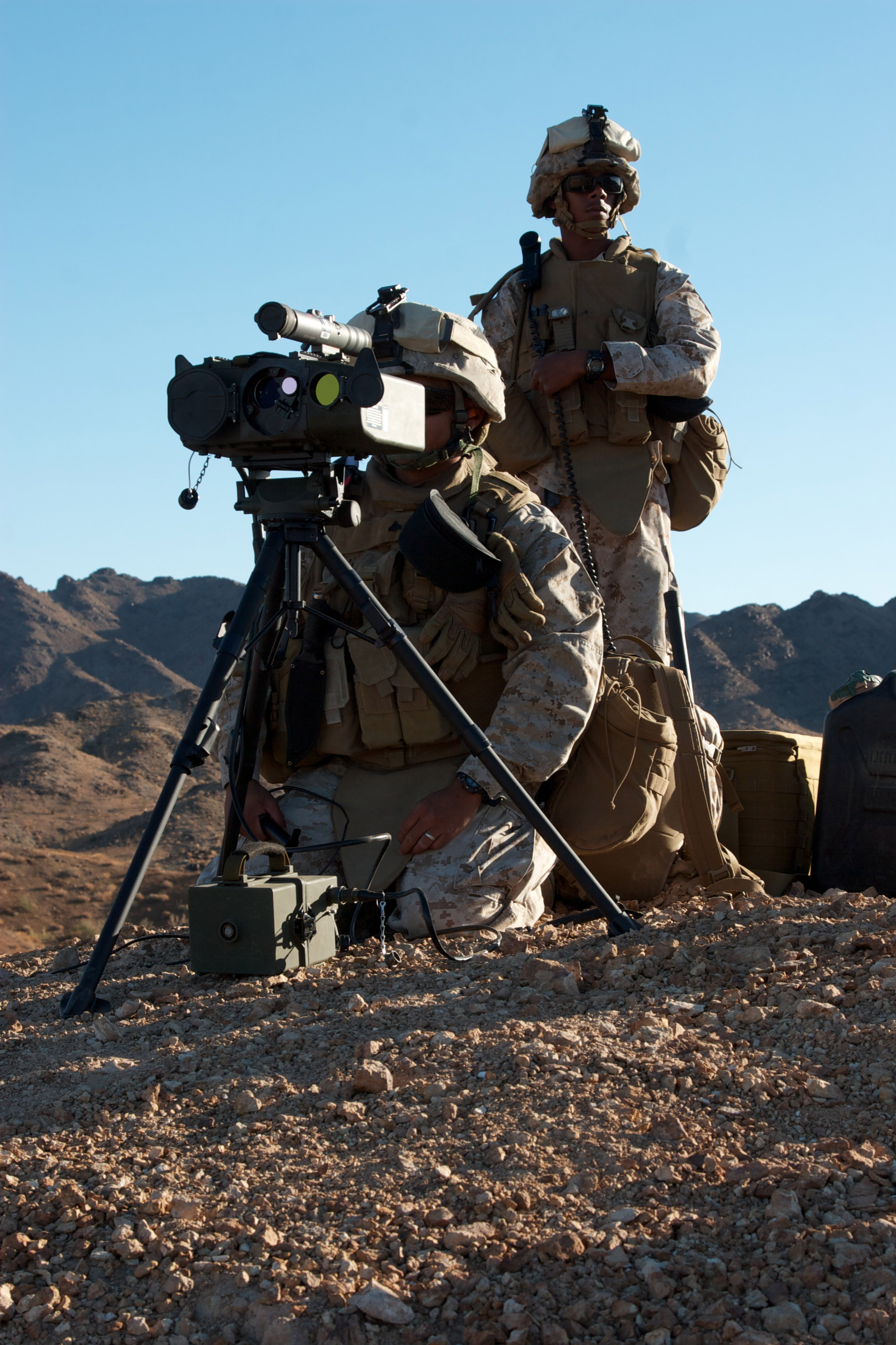 U.S. Marine Cpl. Mark A. Tirona sets a portable laser designator rangefinder onto a target as Pfc. Daquaruis Abner listens for range control on a RT-1796 (P)(C) Multiband Multimission radio at Mt. Barrow, East Imperial, Calif., on Oct. 7, 2010. Marines are participating in an AH-1 Cobra Close Air Support exercise during Weapons and Tactics Instructors Course 1-11 hosted by Marine Aviation Weapons and Tactics Squadron One.